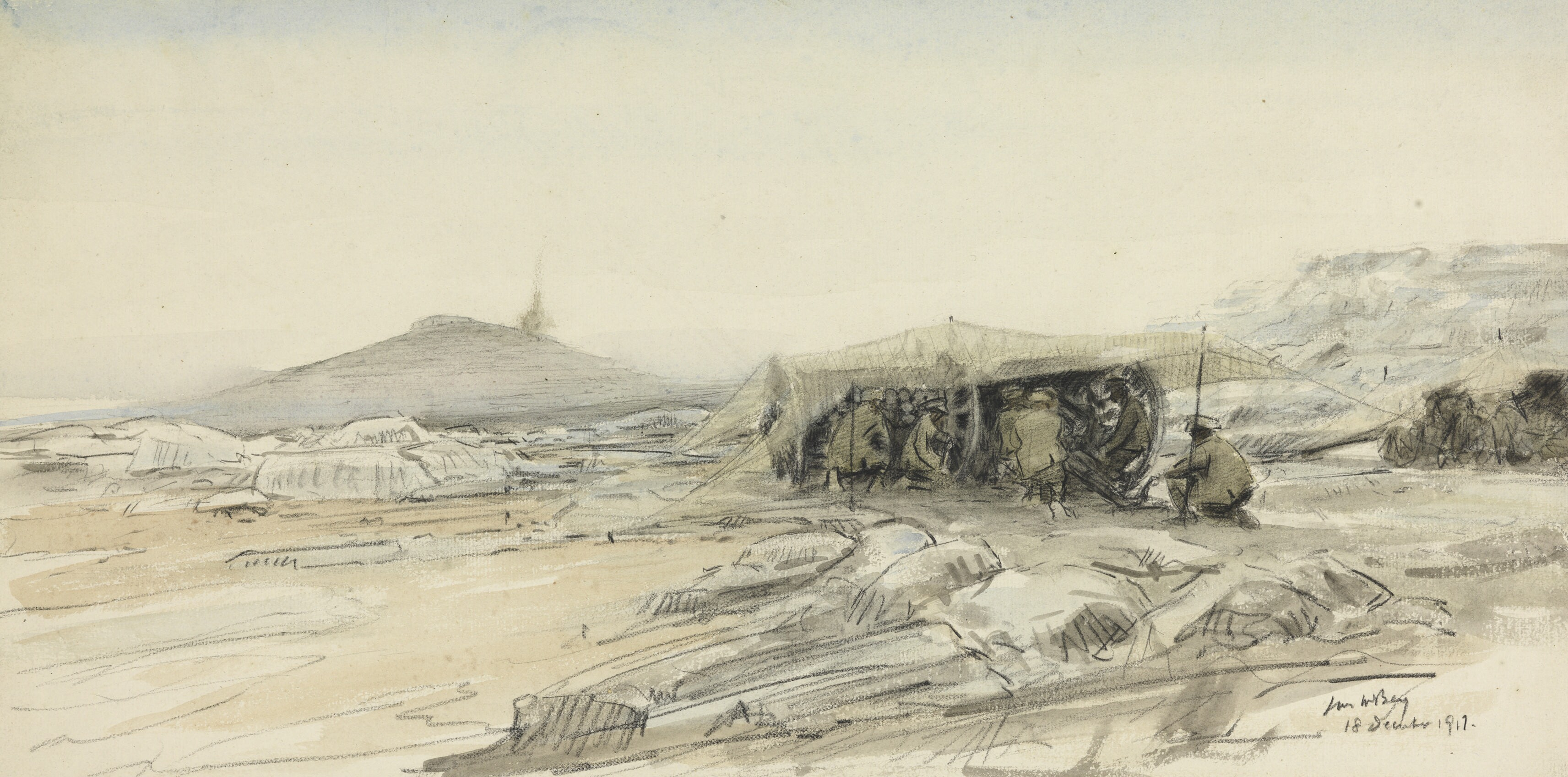 Nebi Samwil. a British Battery in Action - the ancient Mizpah, stormed by the 234th Brigade. a field battery is engaging the Turkish batteries, which are shelling Mizpah. image: in the foreground a team of Royal Artillery gunners load and fire a field gun, which sits within a position covered with camouflaged netting. Another gun and gun team is visible to the right. In the distance, a cloud of earth near the peak of a steep-sided hill shows where one of the British shells had landed.